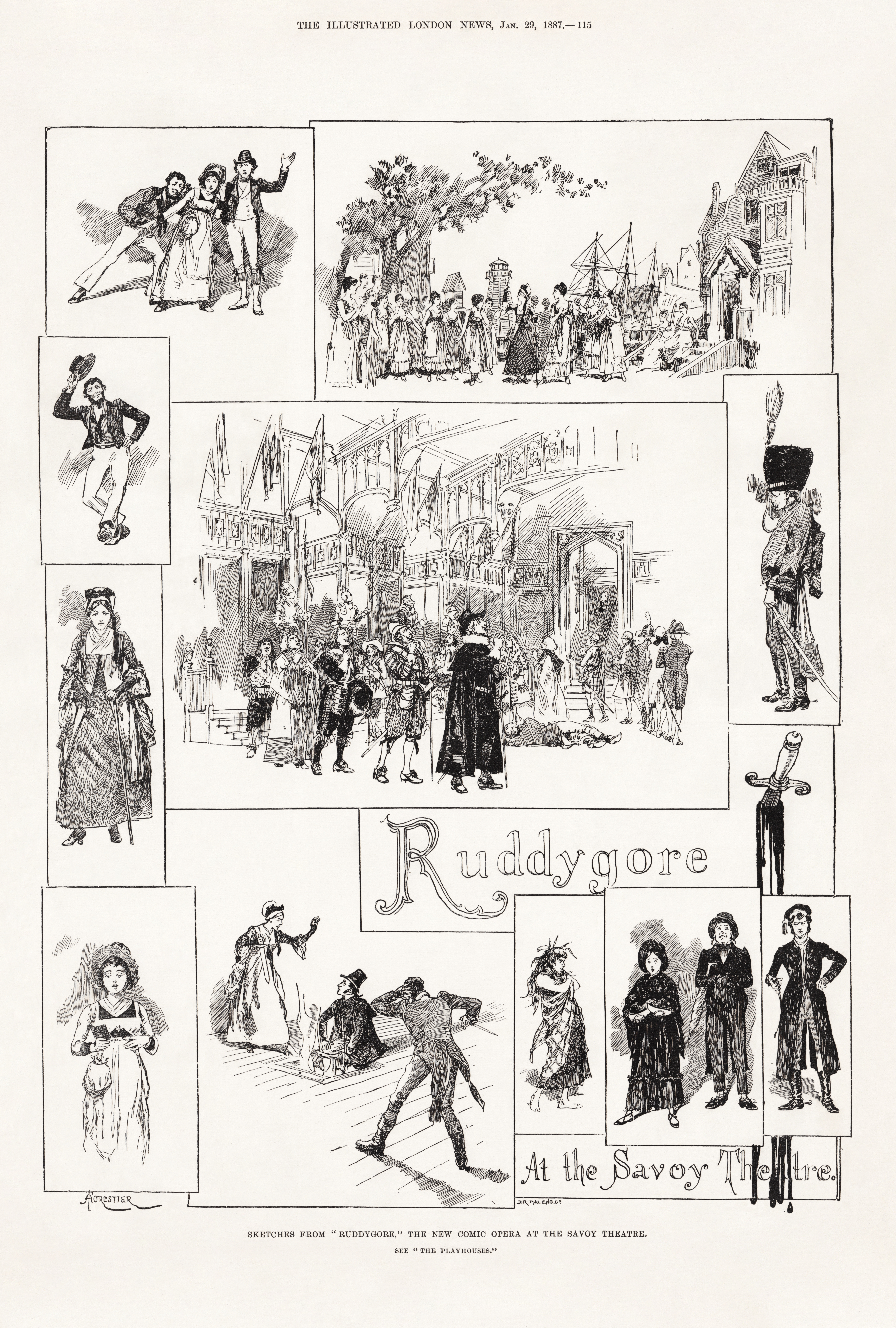 Amédée Forestier's illustration of Gilbert and Sullivan's Ruddygore, later renamed Ruddigore. For the review related to this illustration, see File:Illustrated London News - Gilbert and Sullivan - Ruddygore (Ruddigore) review.jpg The identification of scenes should be mostly correct, but they could be slightly before or after the bit named in some cases. Just to note, this is pretty much a mockup, as cleaning it up properly will take a while.